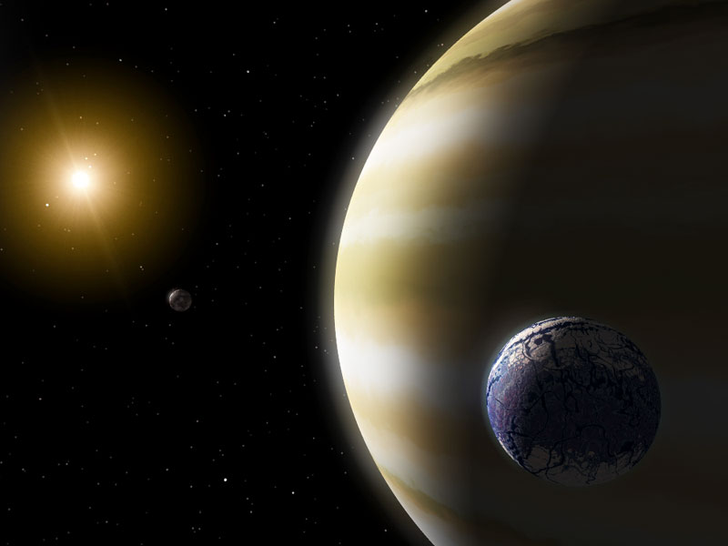 An artist's depiction of an extrasolar, Earthlike satellite orbiting a large gas giant planet.